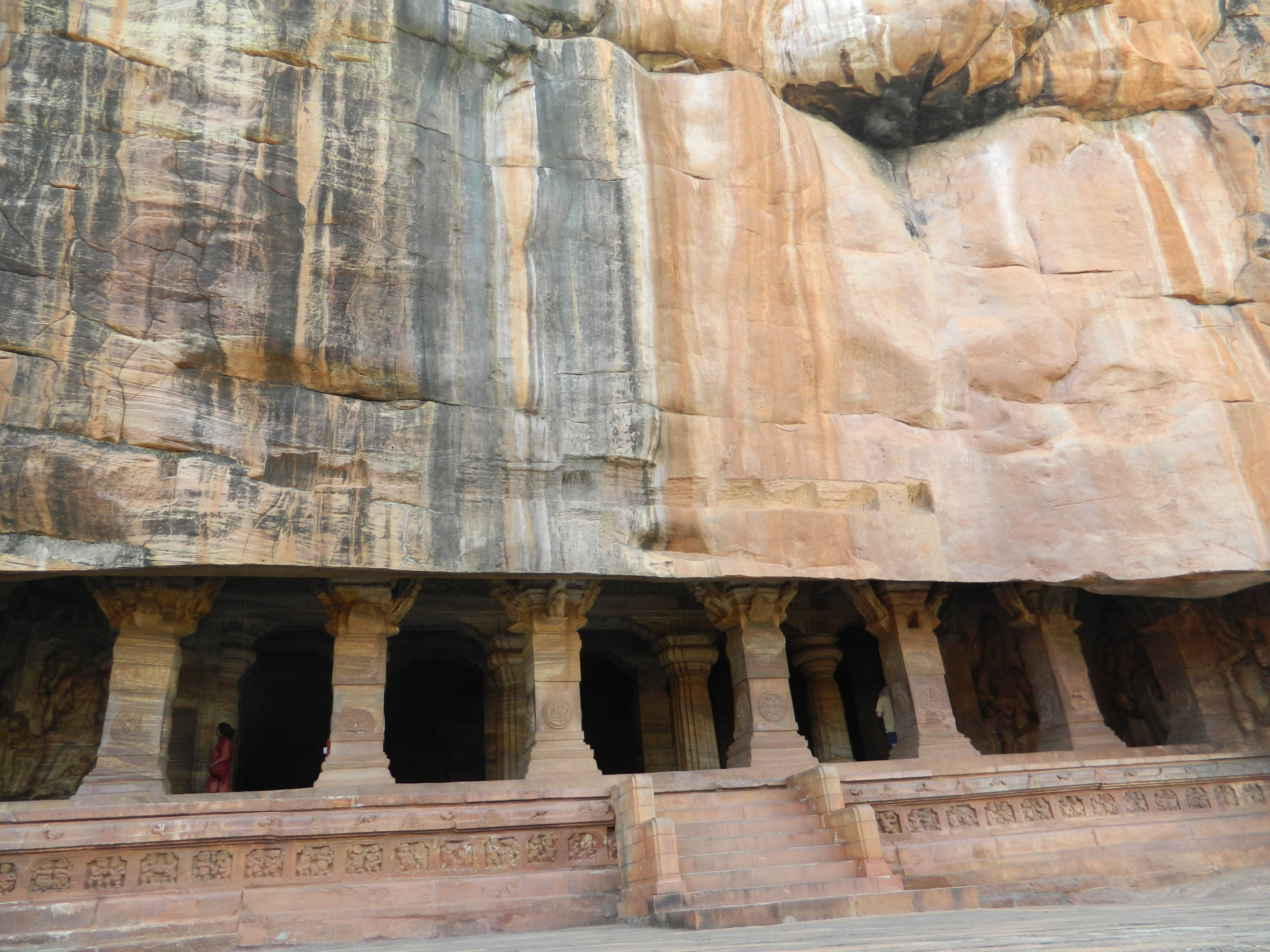 A cave temple at badami, karnataka